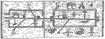 Hieroglyph on Mide scroll